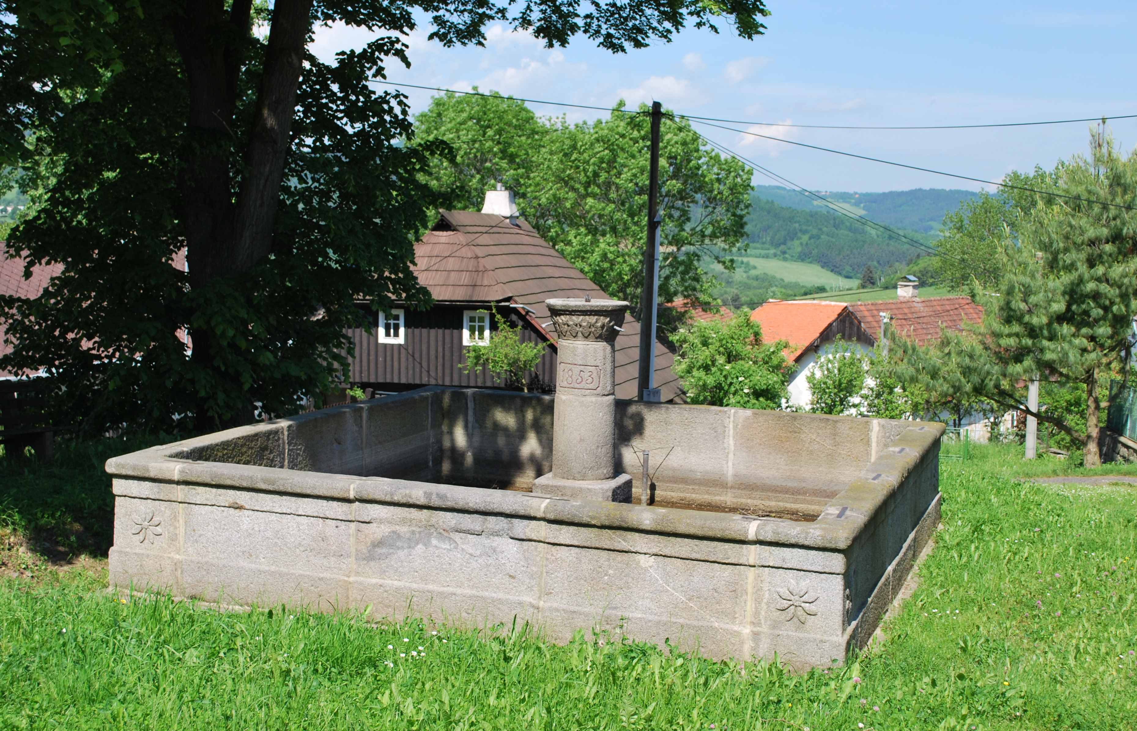 Strašín village in Klatovy District, Czech republic. Fountain This photograph was taken within the scope of the 'Czech Municipalities Photographs' grant. - OpenStreetMap(Info)